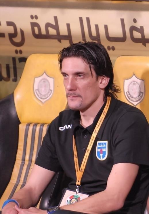 Nebojsa Jovovic